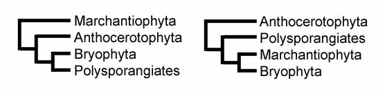 B. R. Speer, competing hypotheses of land plant phylogeny. From Goffinet (2000) article.